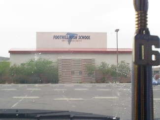 The front of Foothill High School (Henderson, Nevada) on a very rare rainy day. The school colors are shown on the tassle: Gold, Navy Blue, and Colombia Blue.